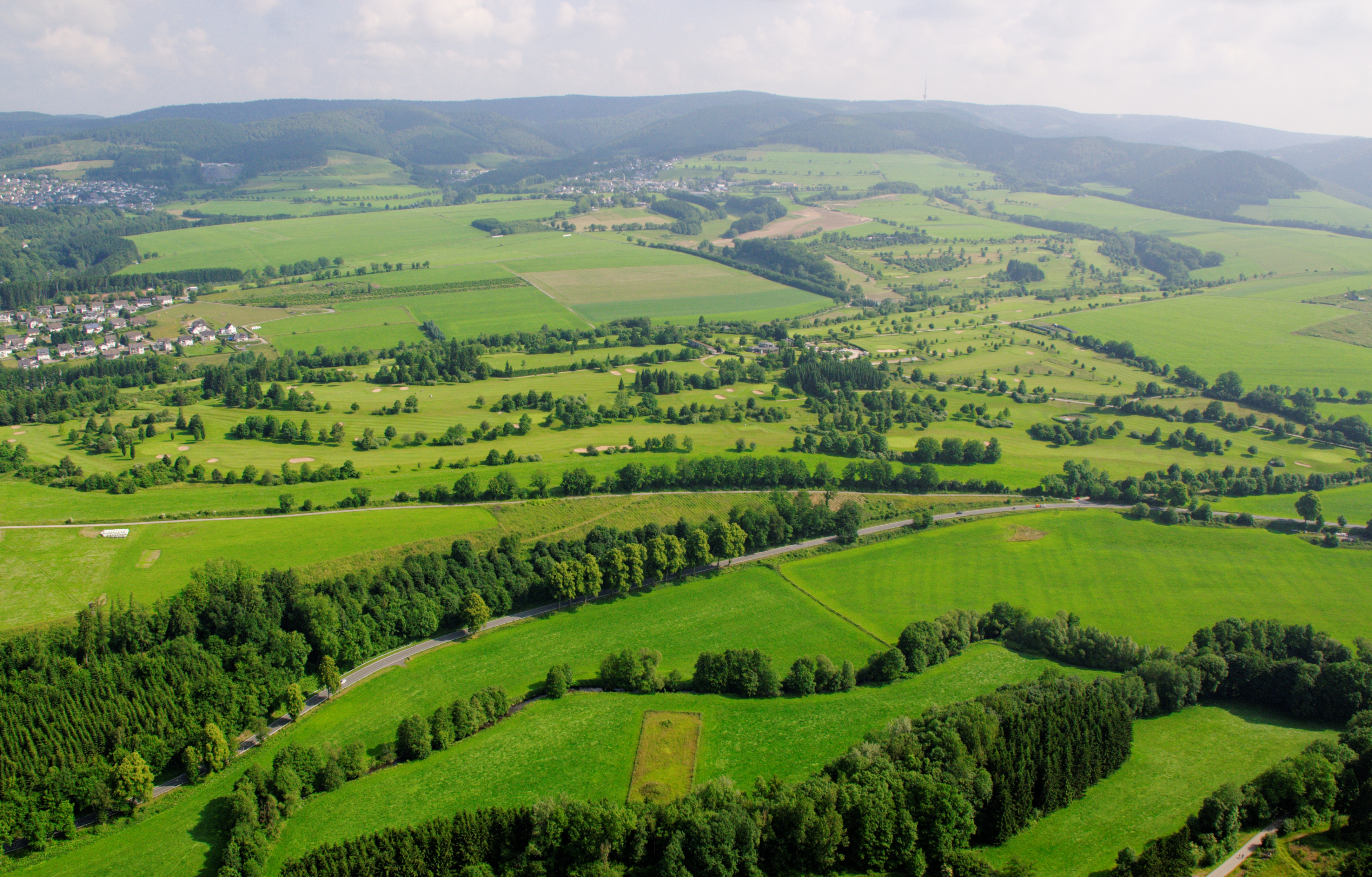 Fotoflug Sauerland-Ost, Golfplatz Schmallenberg-Winkhausen The making of this document was supported by the Community-Budget of Wikimedia Germany.